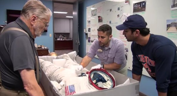 Sushant in NASA Training Center, Huntsville, Alabama